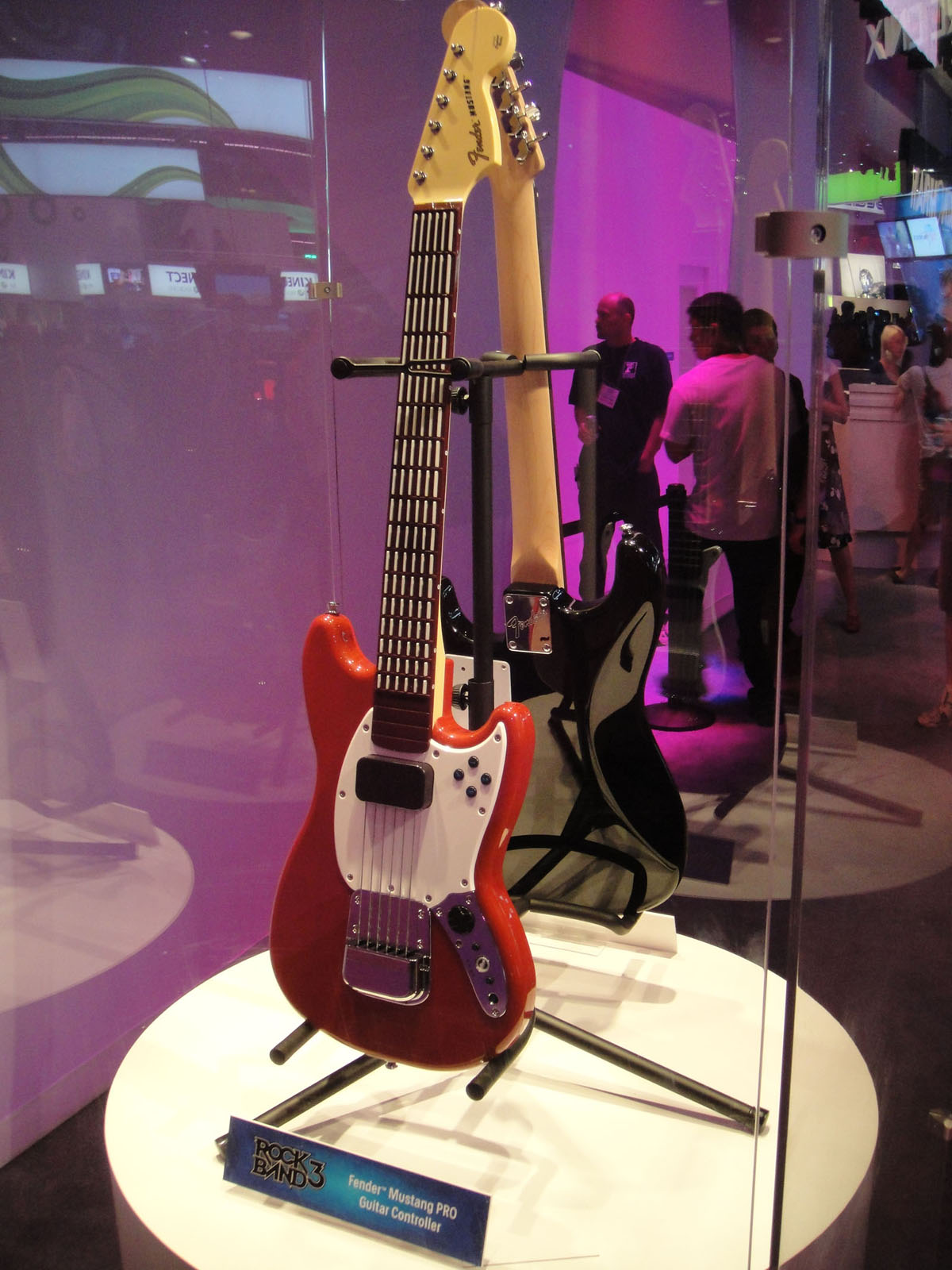 Fender® Mustang Pro Guitar Controller for Rock Band 3 @ E3 Expo 2010